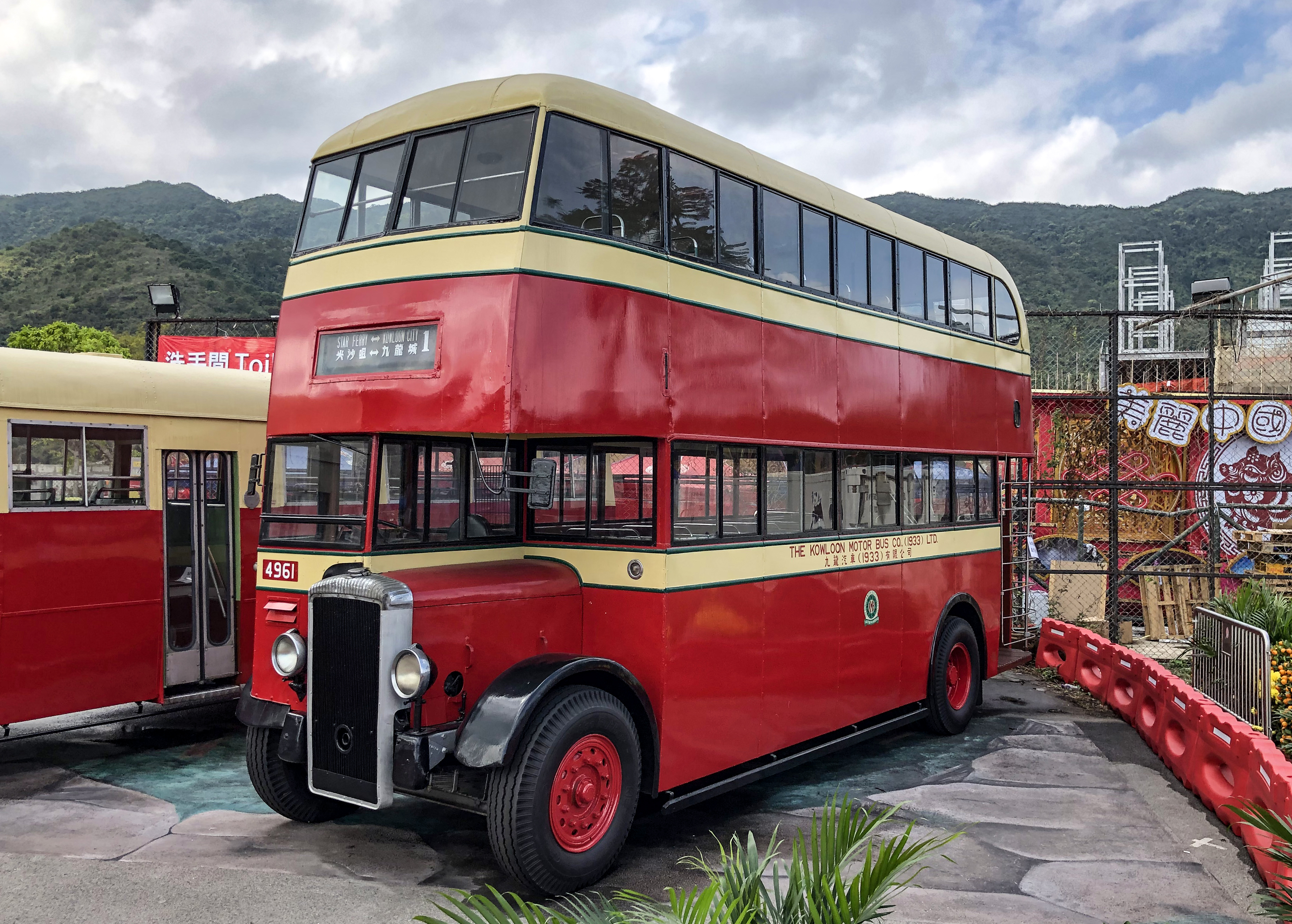 Last day of public exhibition at Lam Tsuen - thanks the clouds!